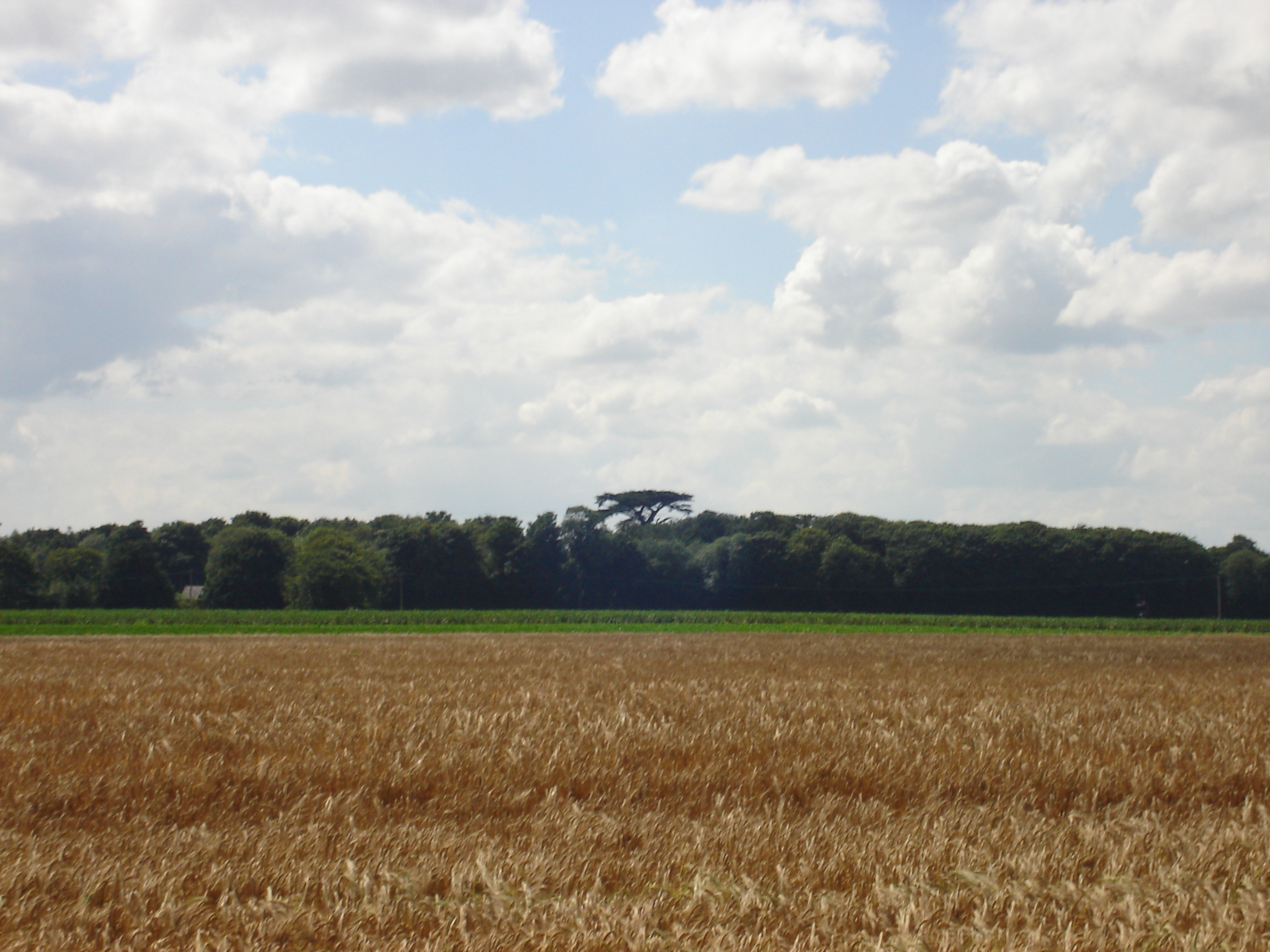 Picture of the Great Cedar at Stratton Strawless, Norfolk. Planted by Robert Marsham in the late 17th century